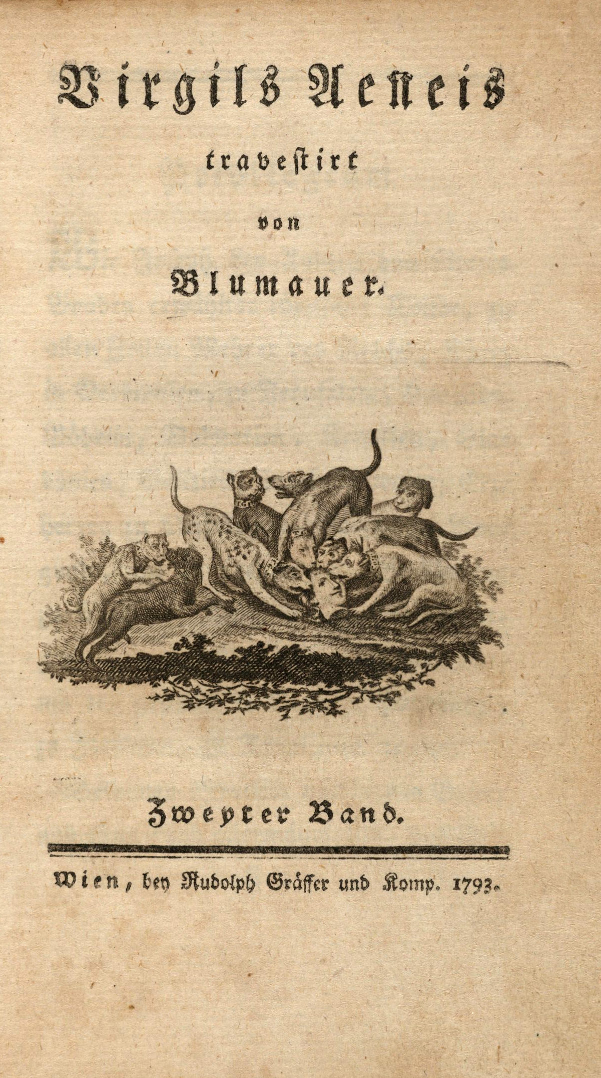 Title page from Virgils Aeneis, 1784, by Aloys Blumauer (1755-1798). *GC7 B6255 B793v, Houghton Library, Harvard University